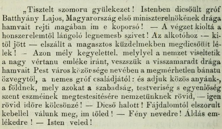 Obituary of Lajos Batthyany